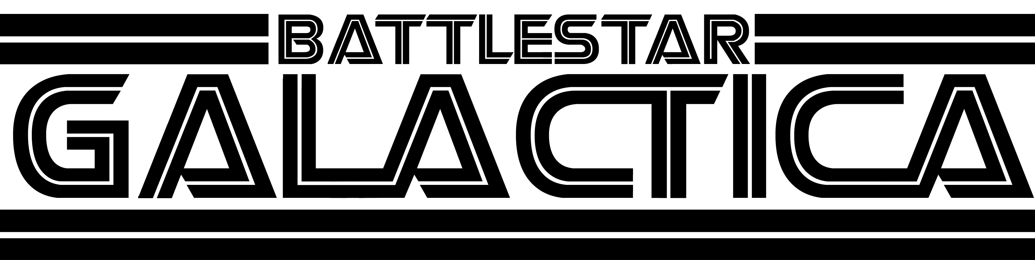 Logo of TV series Battlestar Galactica